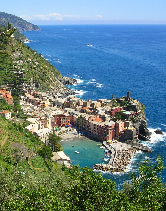 Vernazza town in Liguria, Italy.